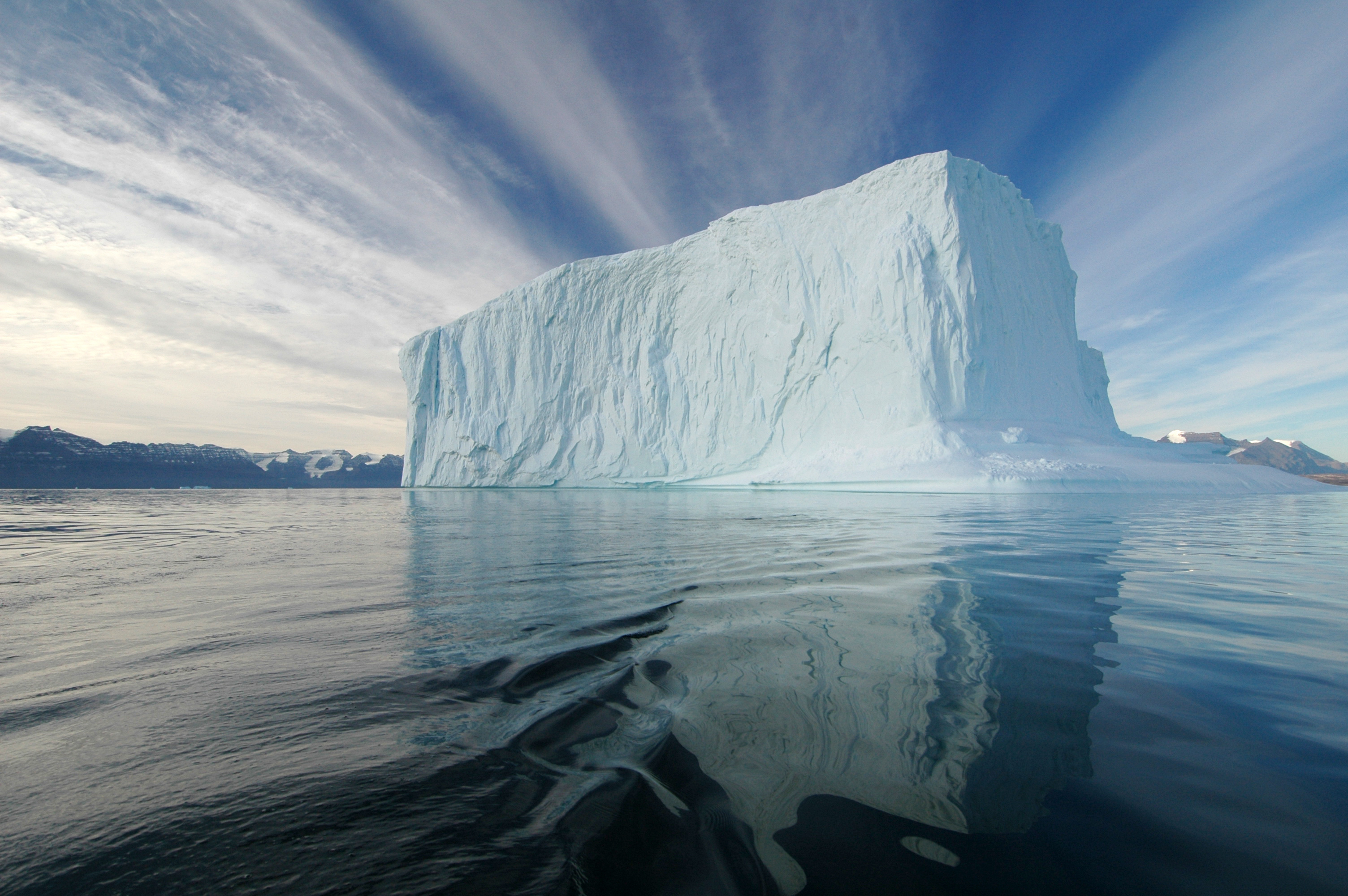 Iceberg in the Northeast Greenland National Park